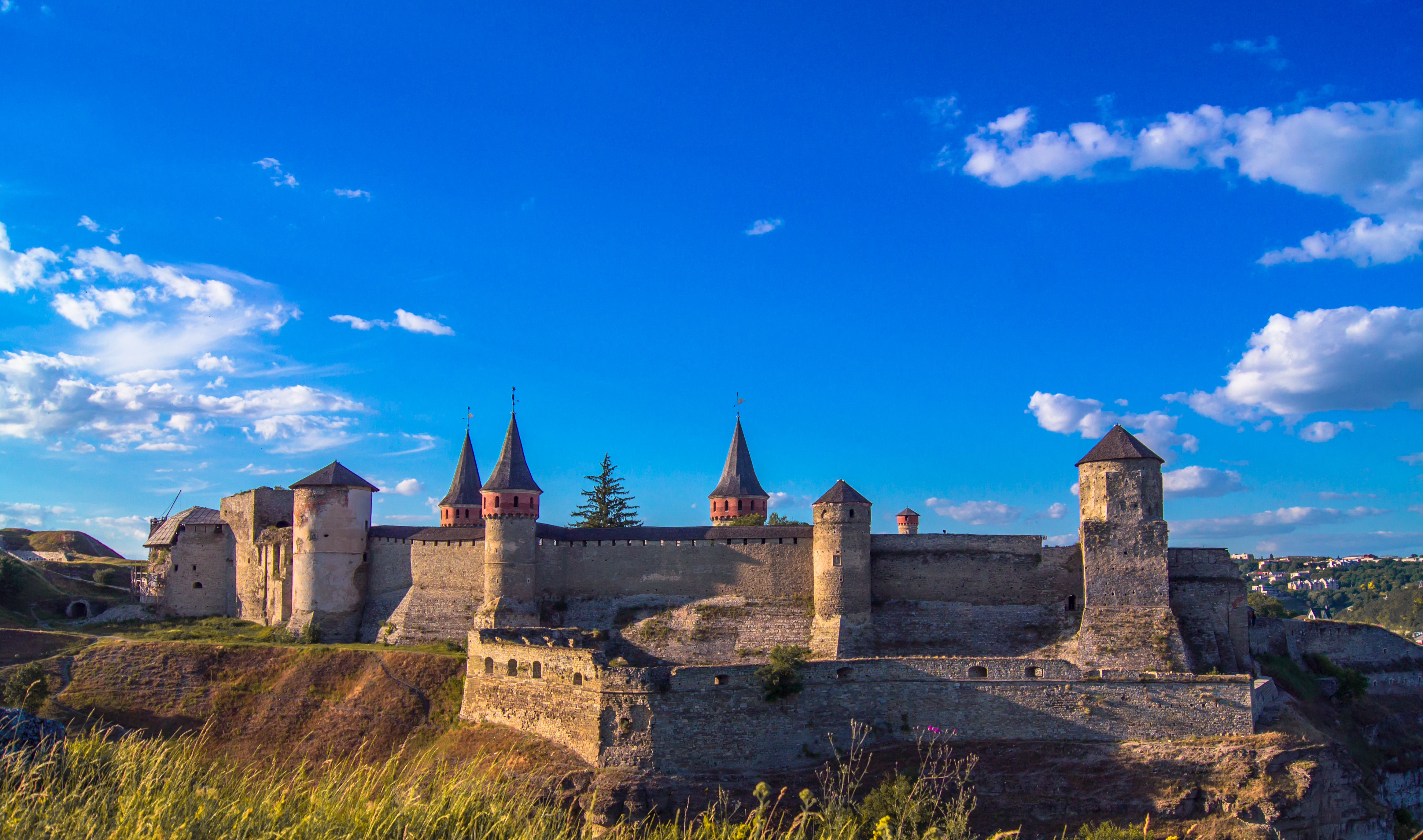 Fortress of the Kamianets-Podilskyi city.